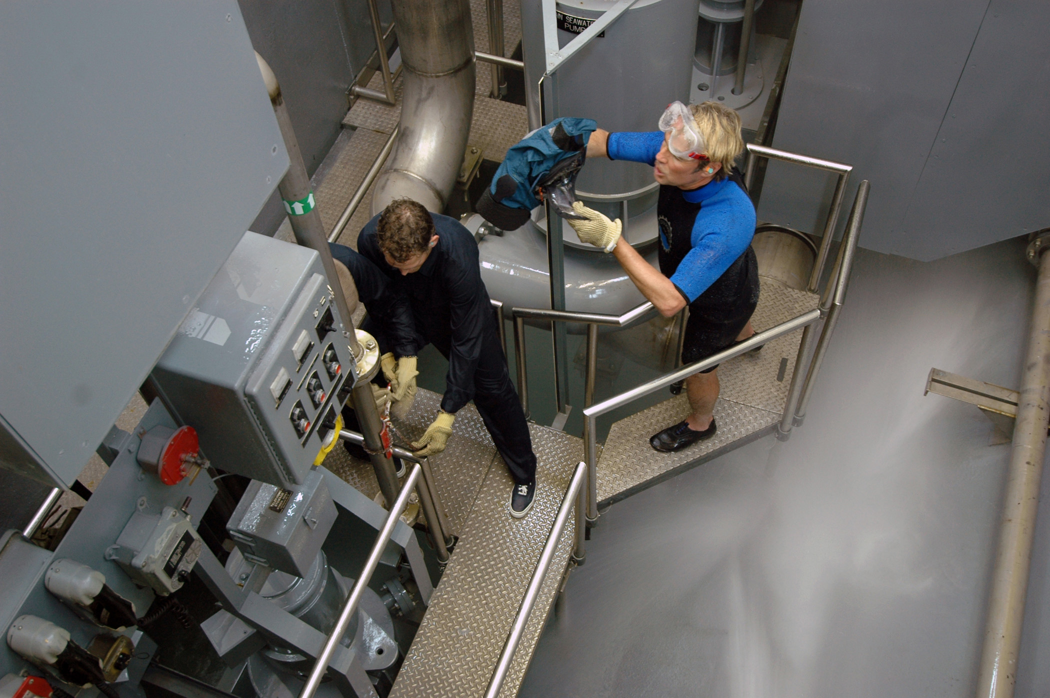 Pearl Harbor (April 4, 2006) - Joe Gutt, director and cameraman from Film House, Inc., a Nashville-based Department of Defense contractor for the Armed Forces Radio and Television Service, documents sailors performing damage control training at the Naval Submarine Training Center Pacific. The video documentation will be used to produce a segment spotlighting the Damage Controlman rating, which will be aired worldwide on the American Forces Network (AFN). U.S. Navy photo by Photographer’s Mate 1st Class James E. Foehl (RELEASED)